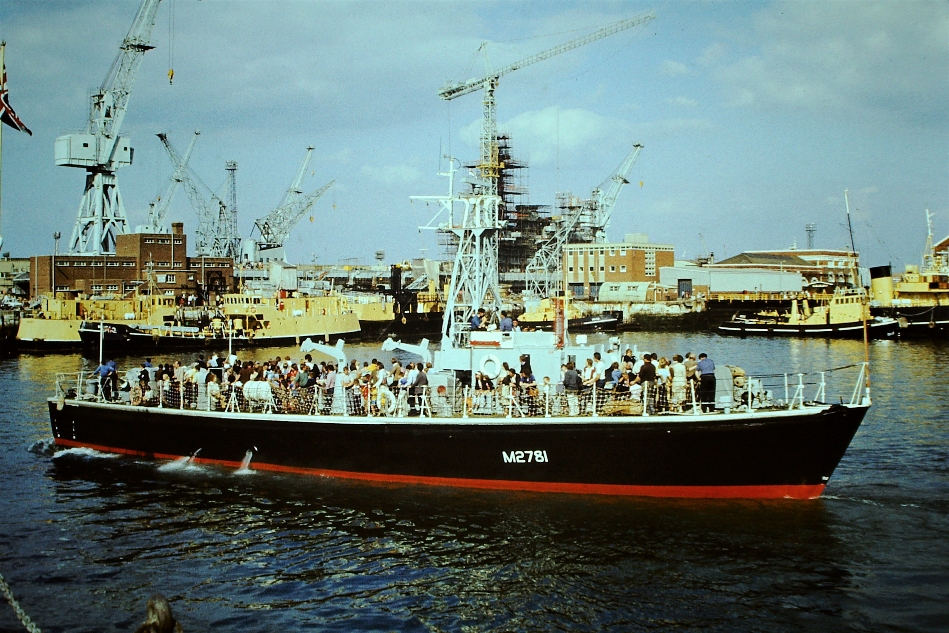 Type 1, batch 3 "Ham" Class Inshore Minesweeper "HMS Portisham", 120 tons, launched 1955, commissioned 1956. At the Portsmouth Navy Day, 08/80. Scanned slide.